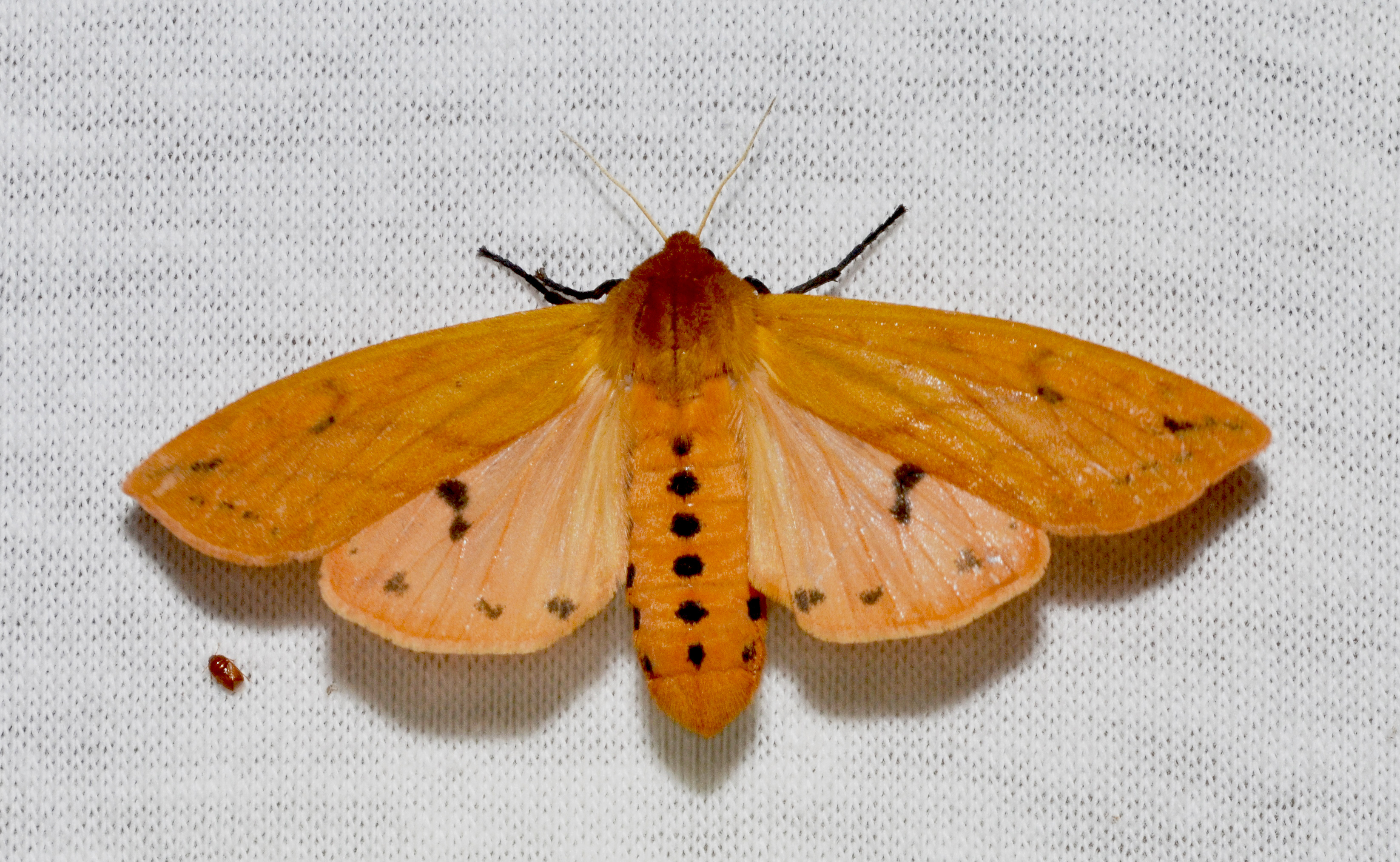 Mothing 8/4/14